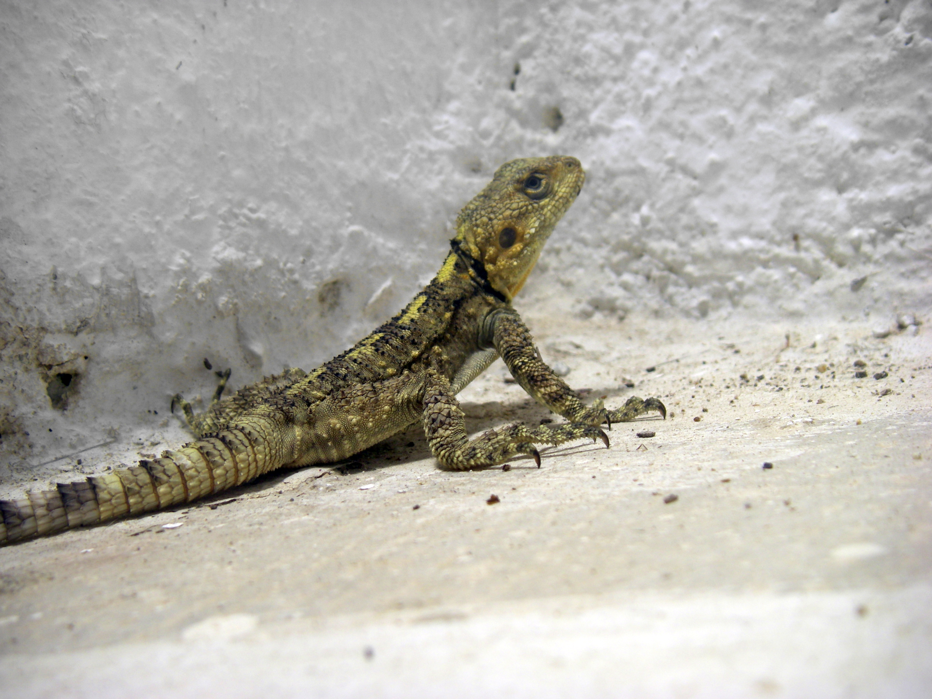 Young lizard of the species Stellagama stellio ("star lizard"), photographed in Mykonos, Greece